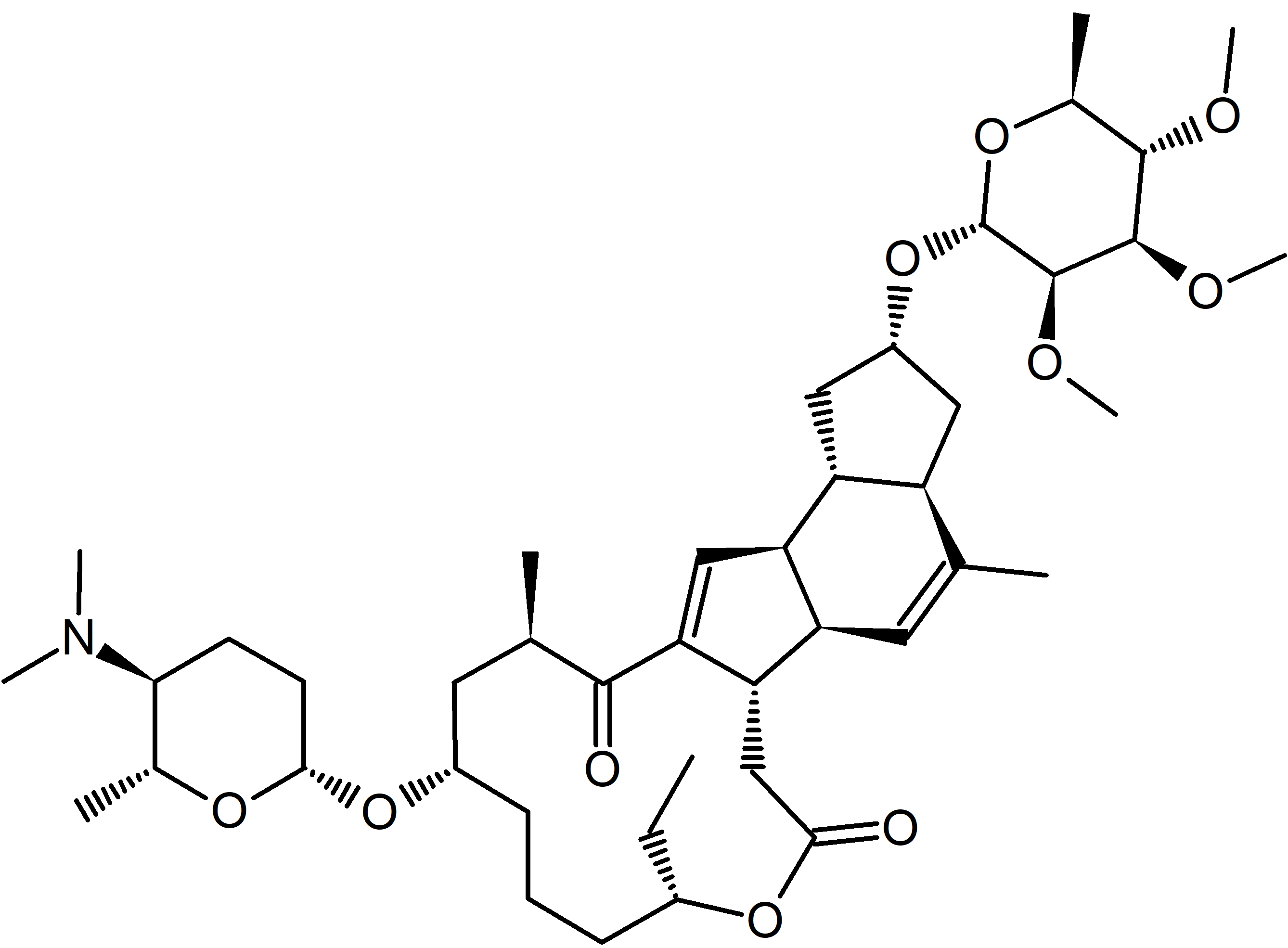 Structure of Spinosyn D